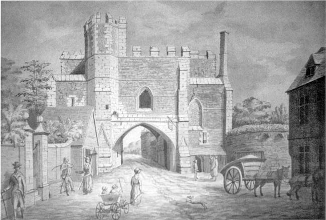 Kings Lynn East gate of unknown date